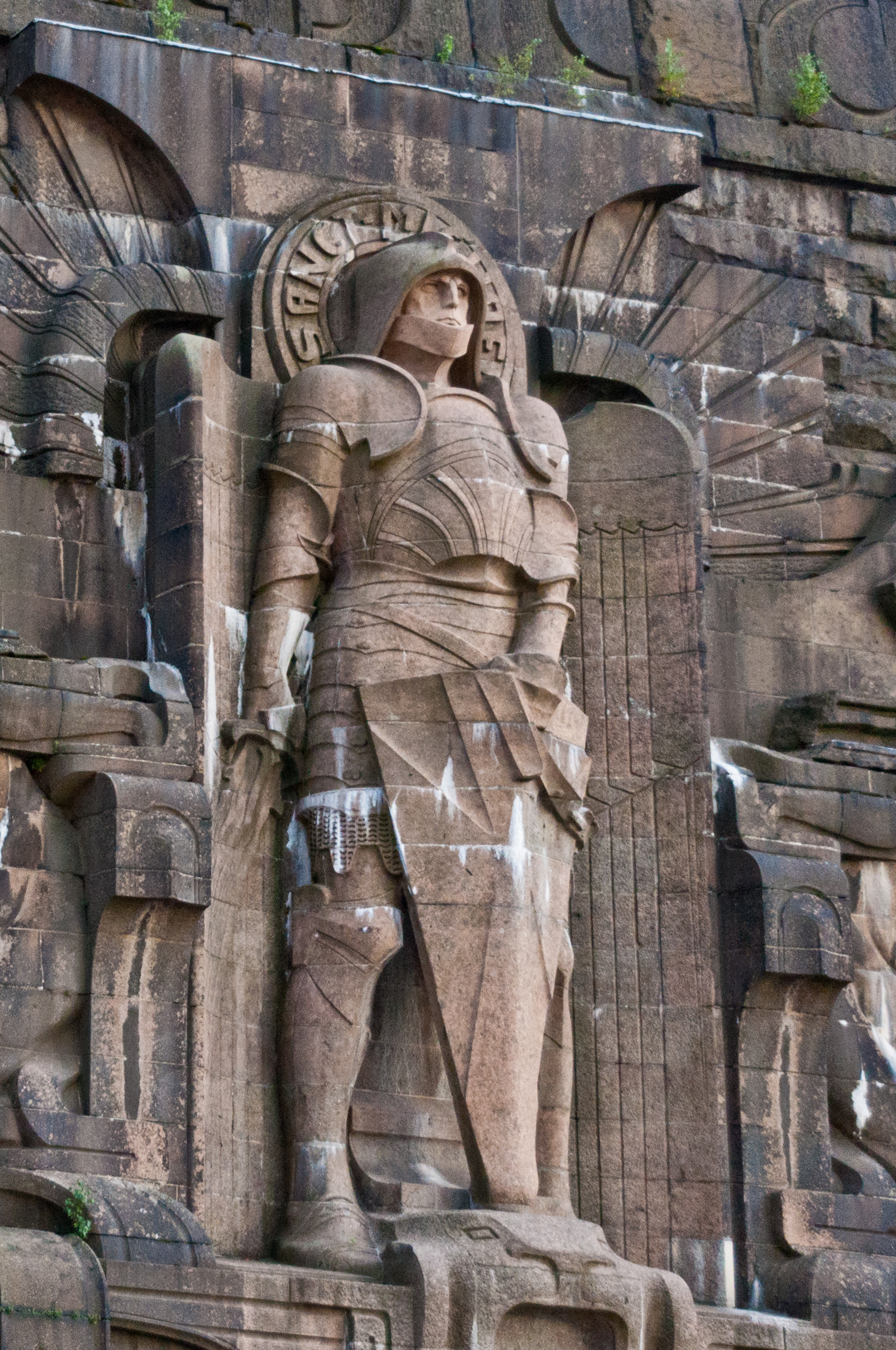 Sanct Michael at Monument to the Battle of the Nations in Leipzig